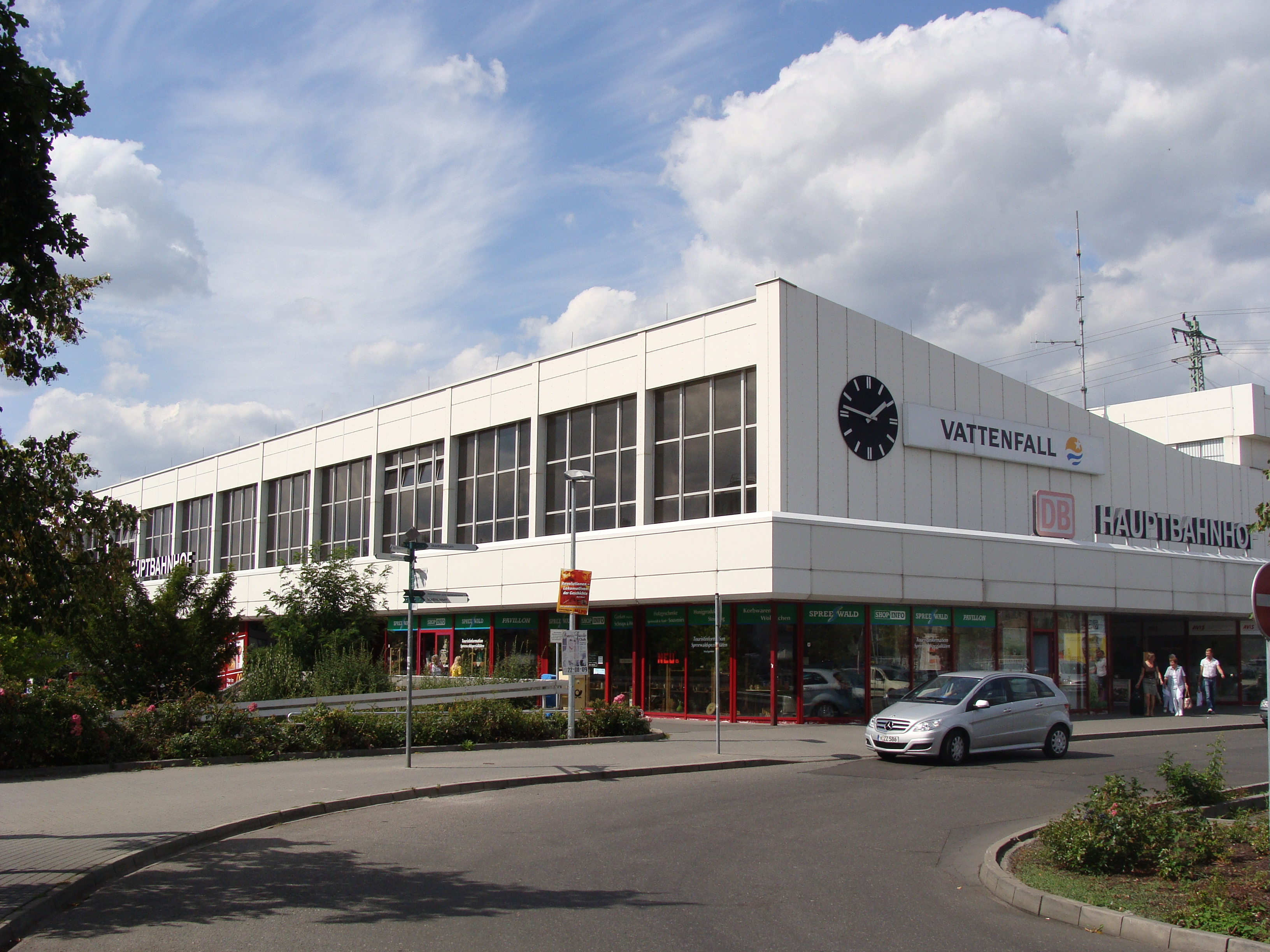 train station Cottbus in 2009